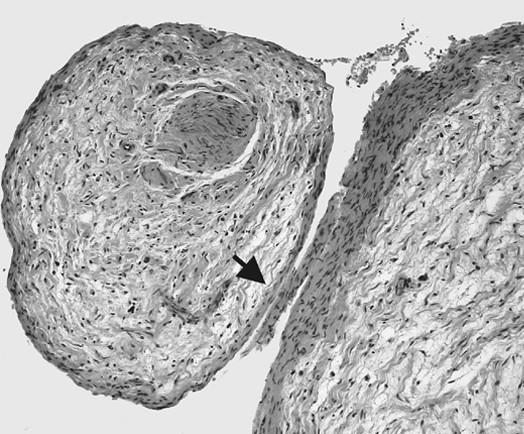 Photomicrograph of PNF. Plexiform neurofibroma WHO grade I invading fascicles of a peripheral nerve. Tumor growth is primarily confined to the endoneurial space; the perineurium (arrow) forms a natural border for the tumor. Note the loose myoxid texture of the tumor tissue